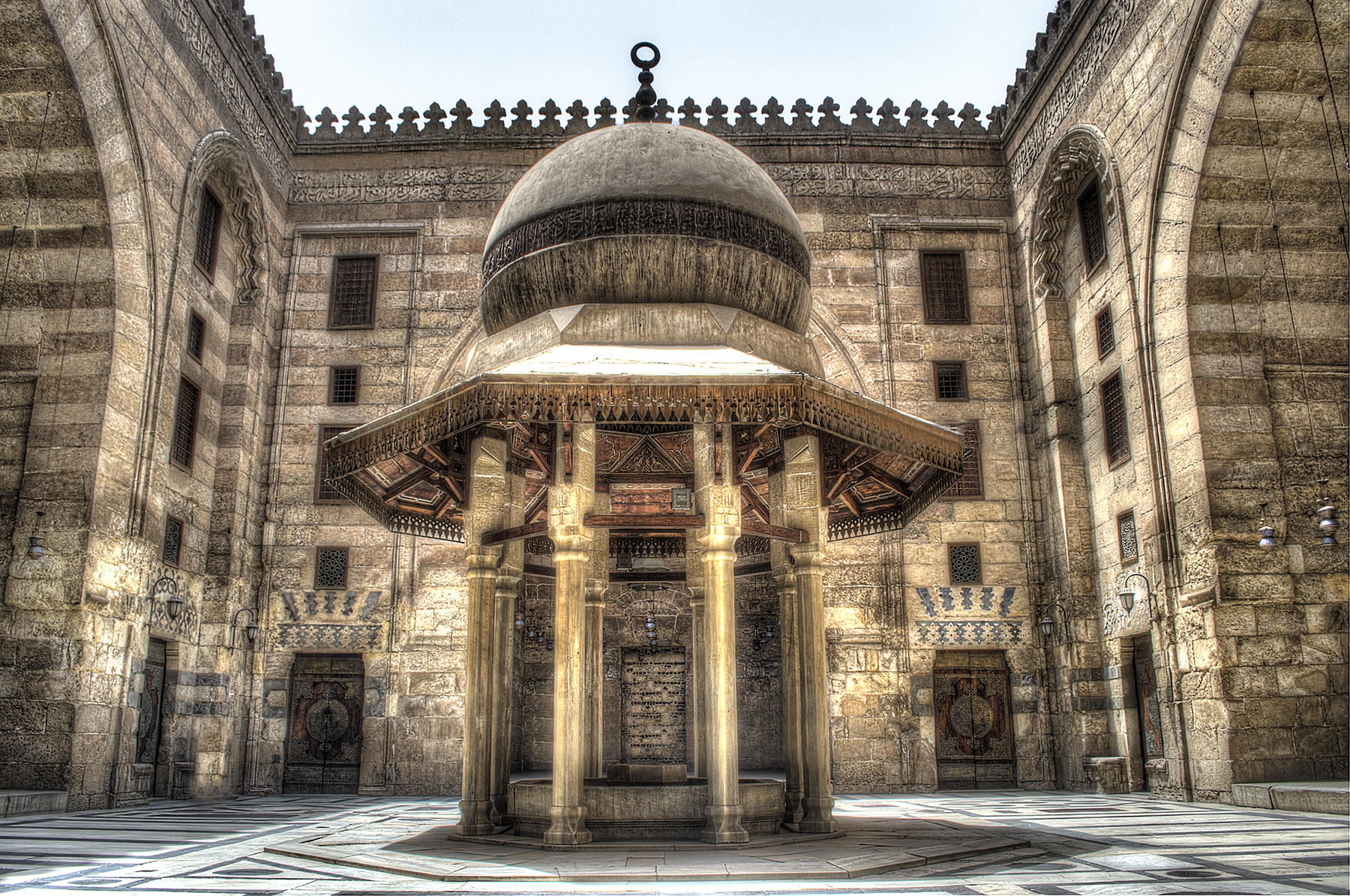 Islamic pre-prayer washing and cleansing water supply called "Maydaa" at Al Moez Street, Cairo